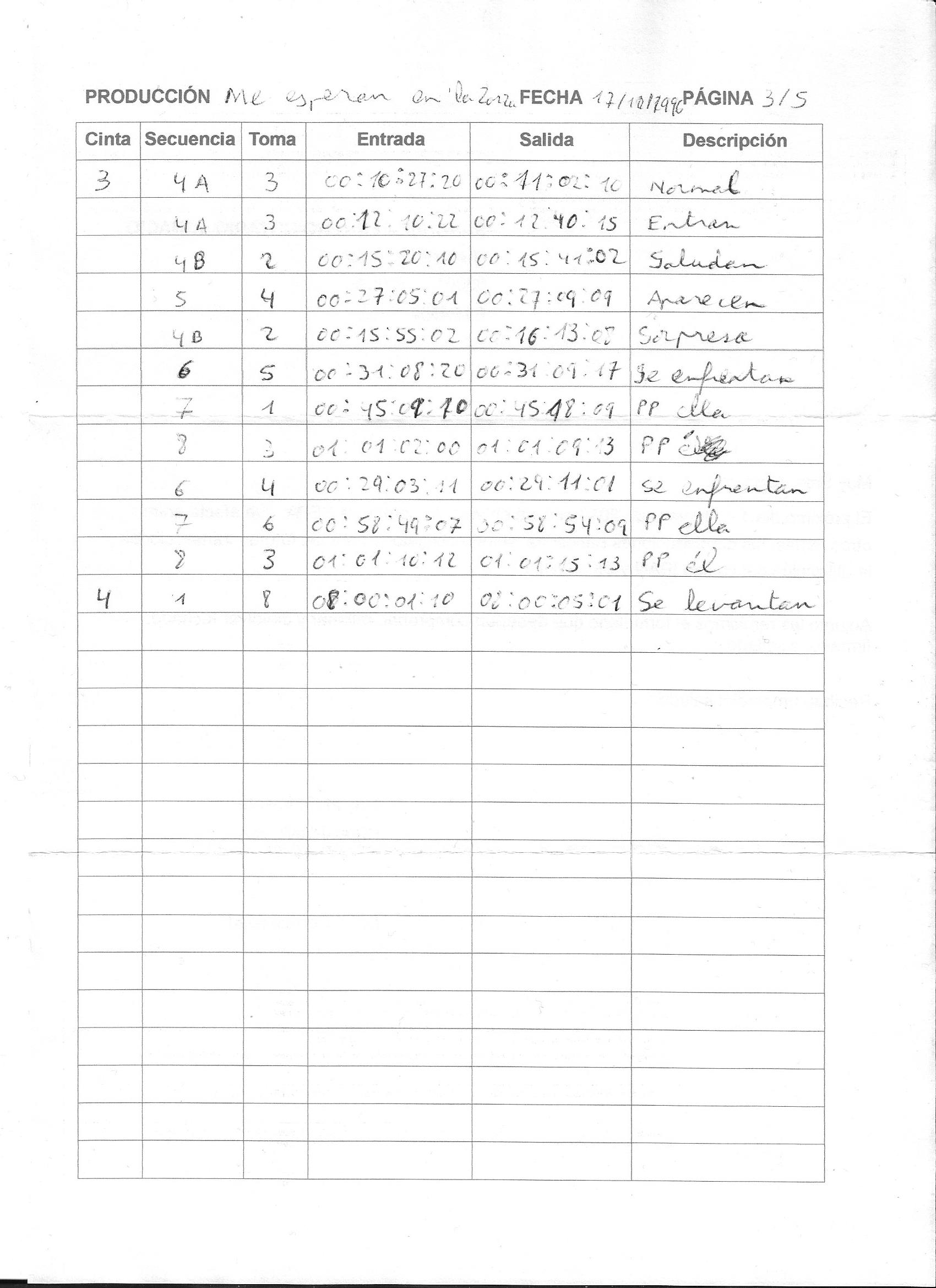 A handwritten edit decision list